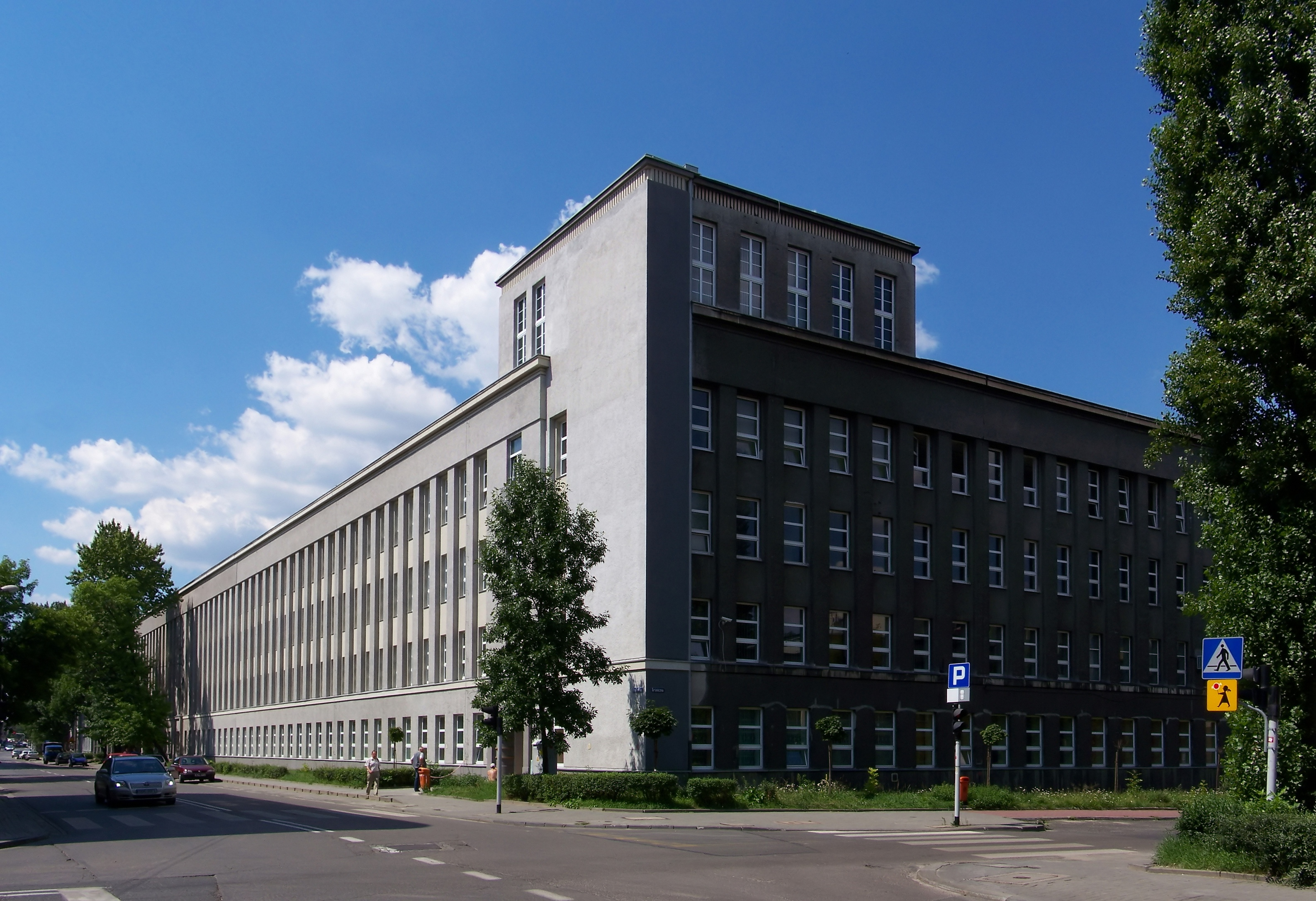 Silesian University of Technology in Katowice (Poland).